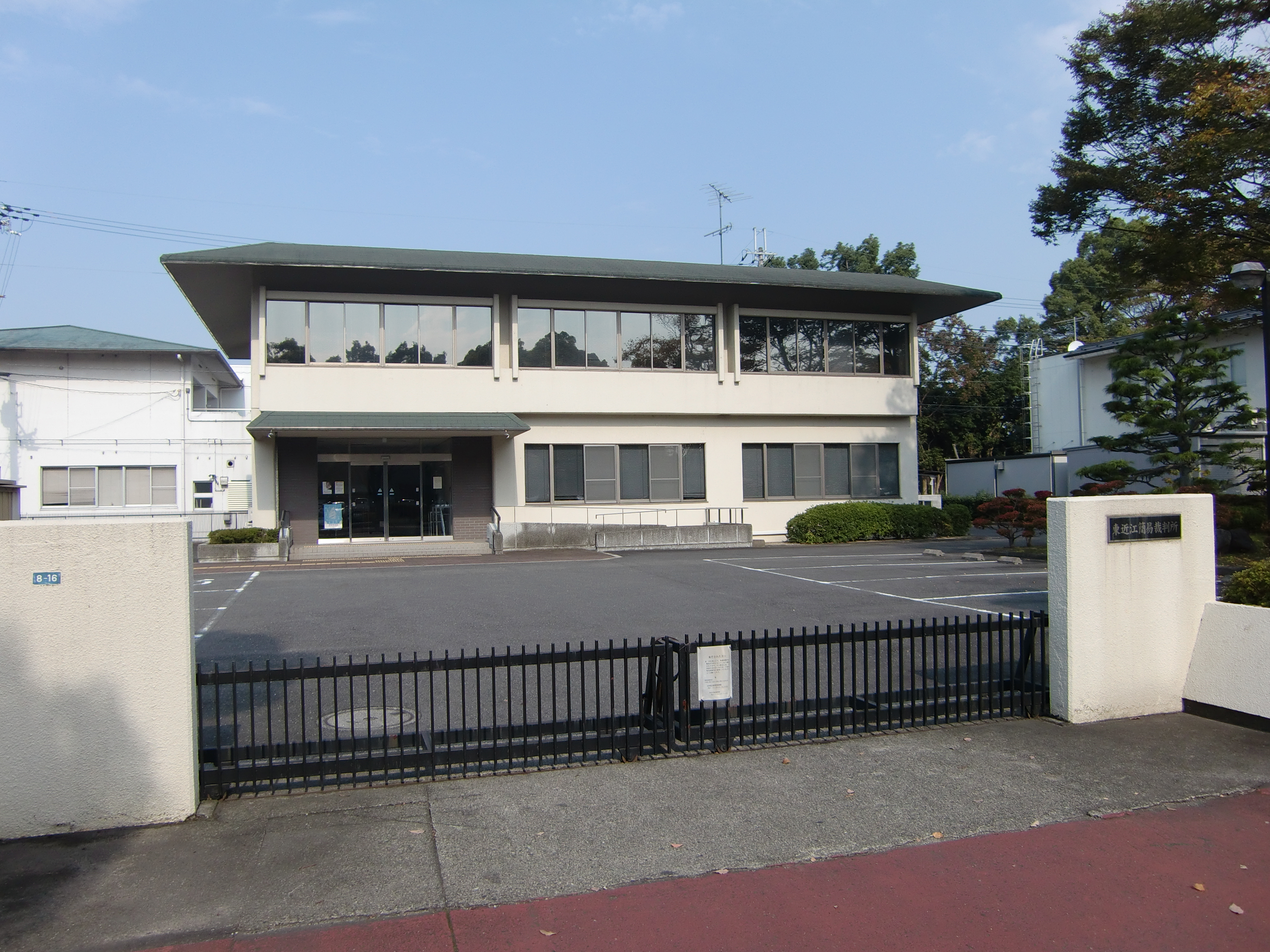 Higashiomi SummaryCourt